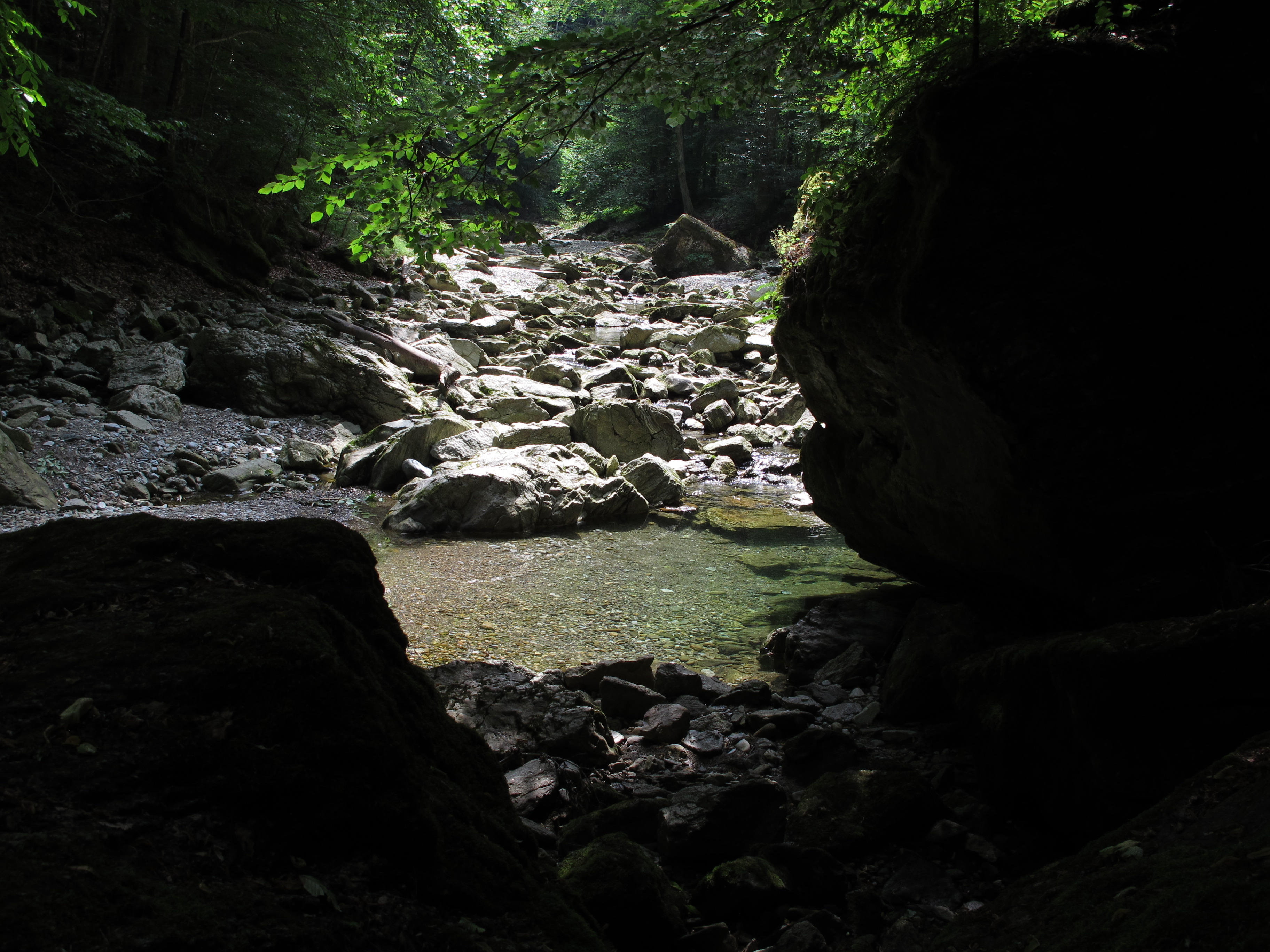 Raabklamm